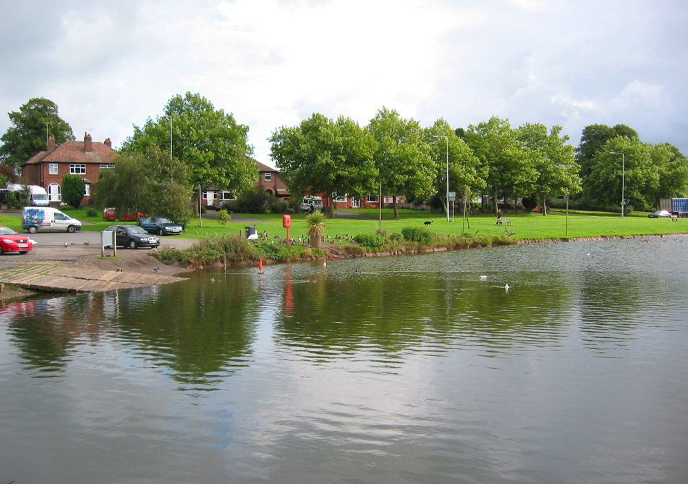 Nantwich or Shrewbridge Lake, a salt water lake just outside Nantwich, Cheshire, UK